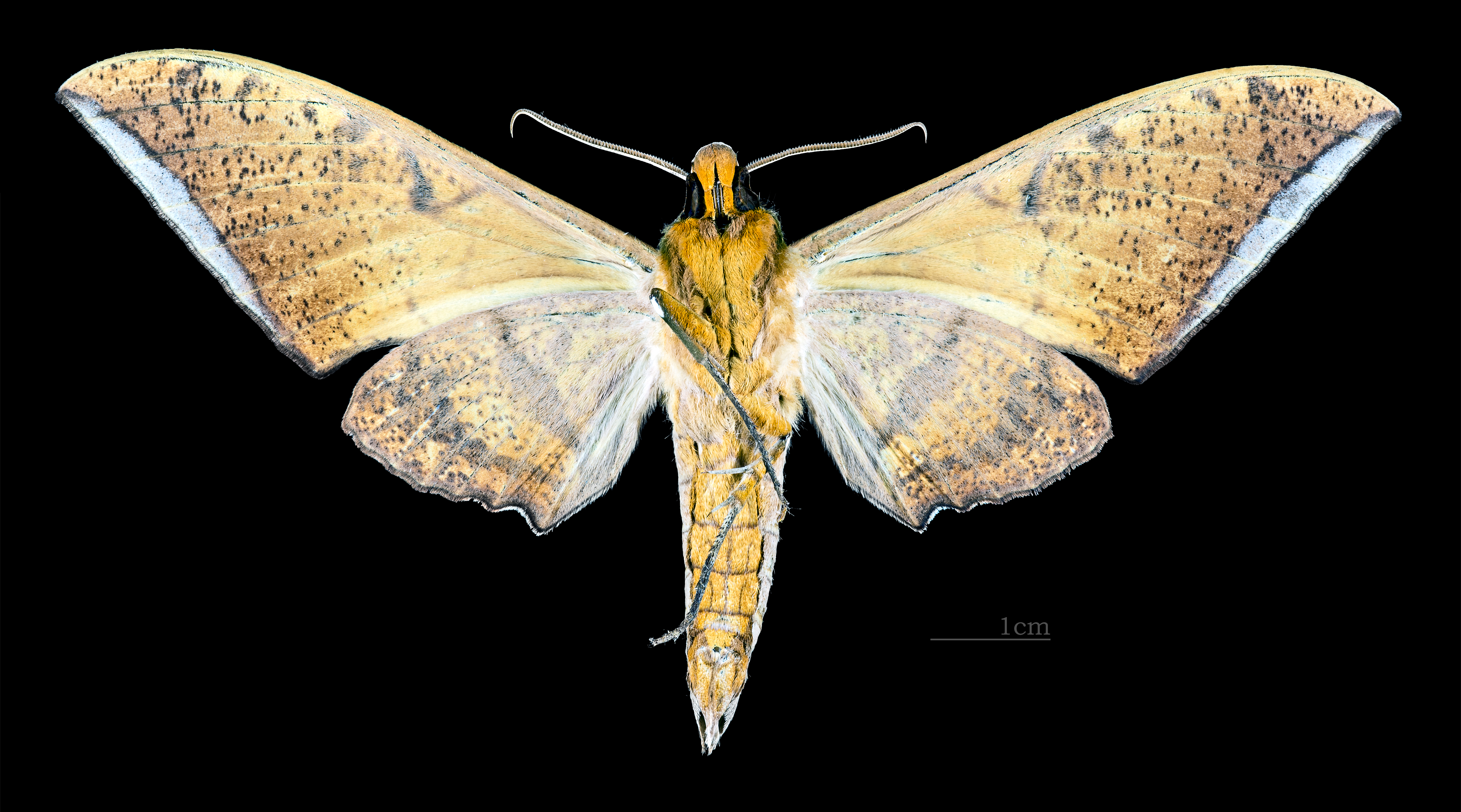 Ambulyx clavata - △ Ventral side Collection of the Mathematician Laurent Schwartz